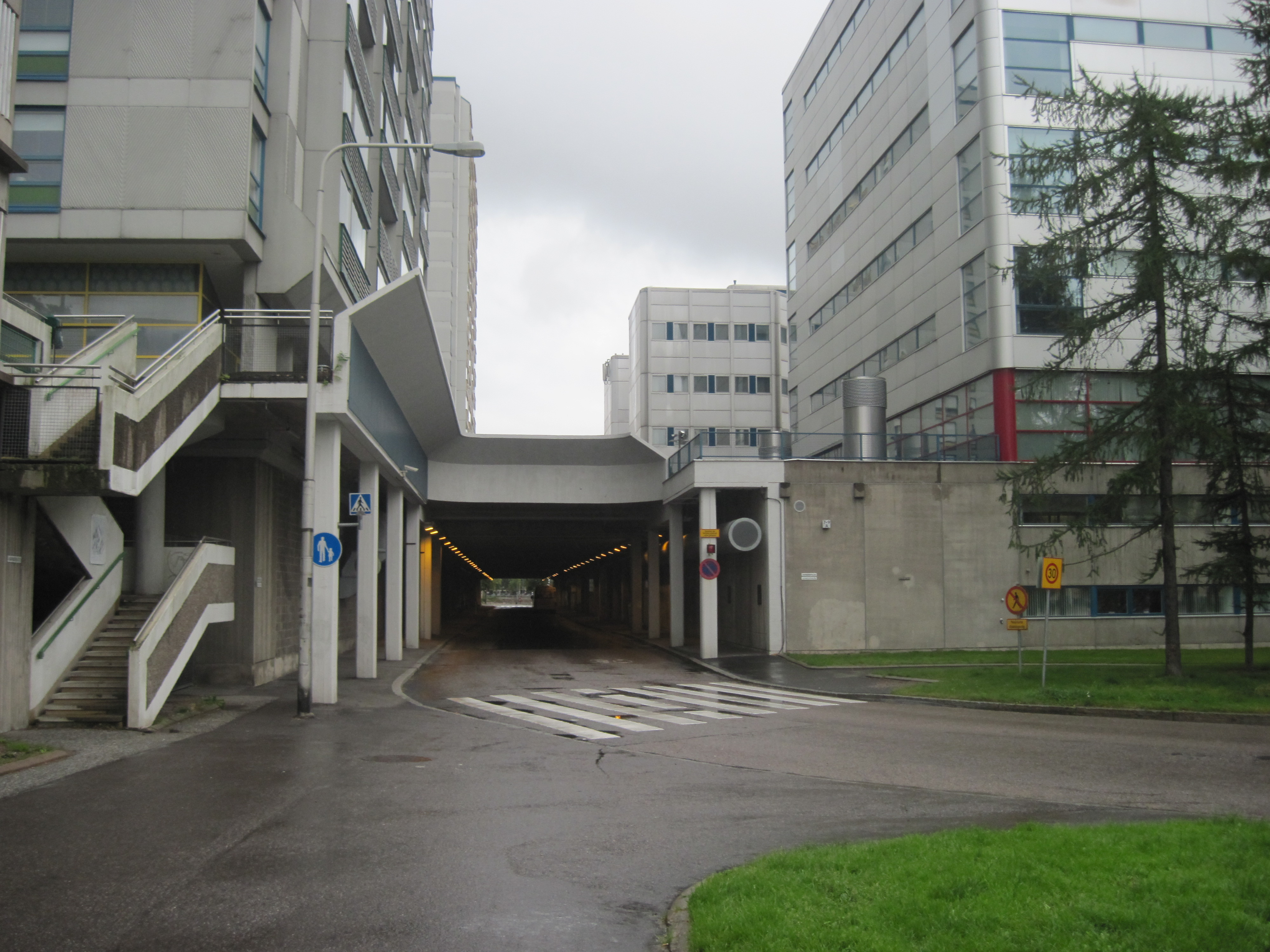 Tunnel of Haapaniemenkatu in Merihaka, Helsinki